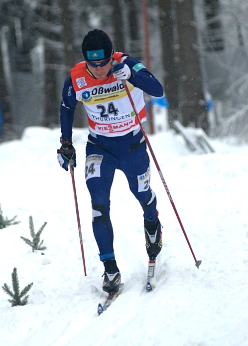 Andrey Golovko at the Tour de Ski 2010 in Oberhof